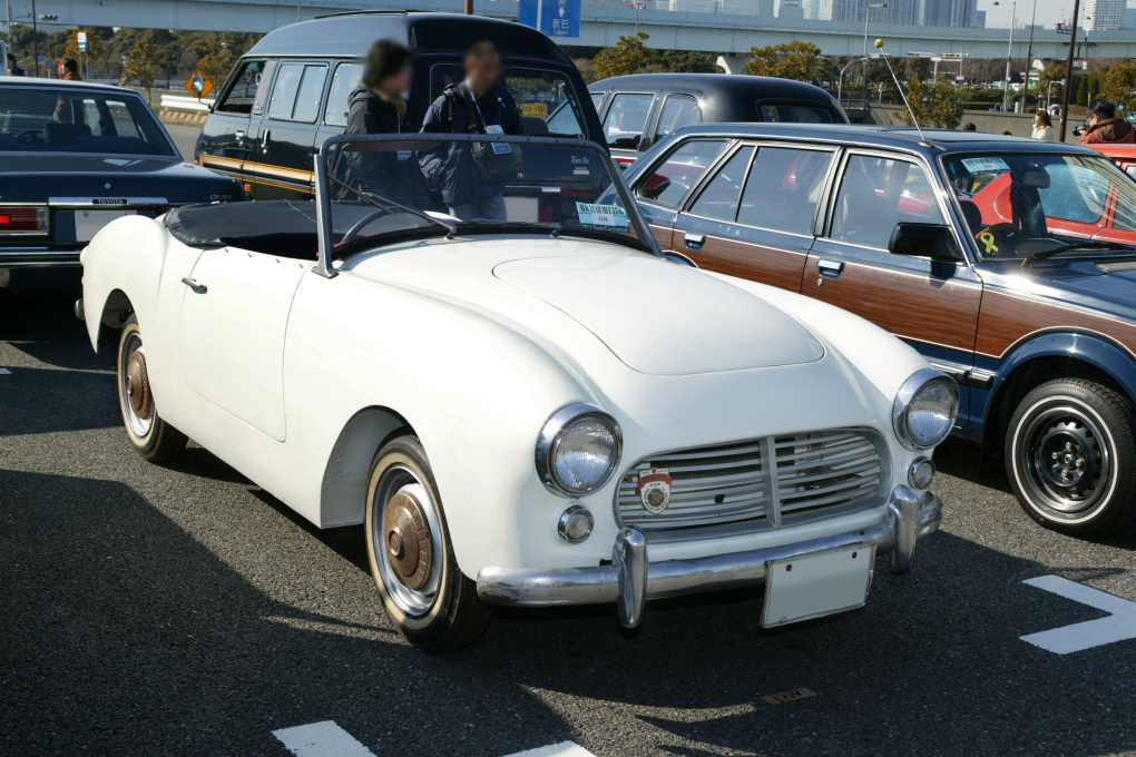 Datsun S211. There is also a 1st generation Honda Civic Country Wagon next to it.